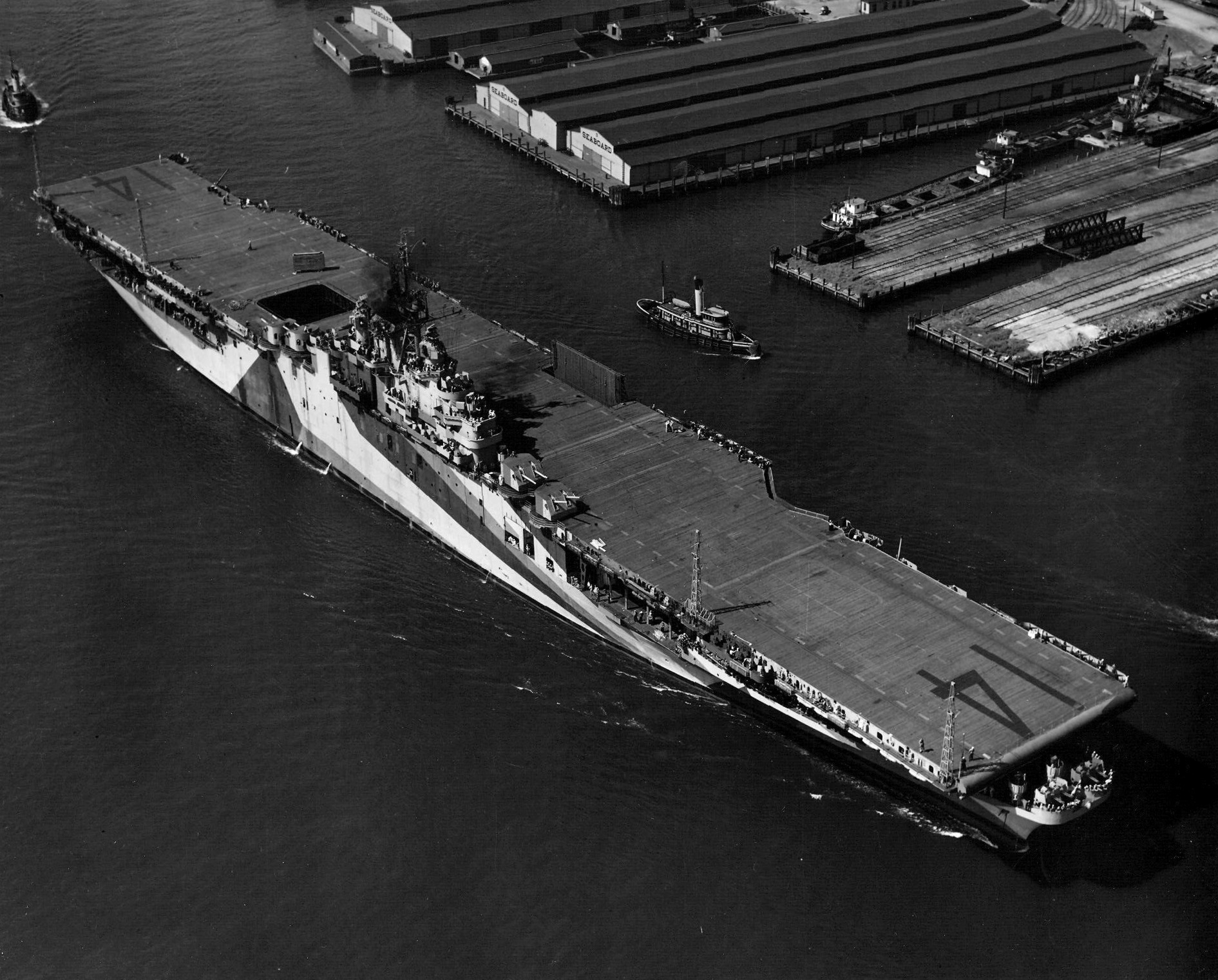 The U.S. Navy aircraft carrier USS Ticonderoga (CV-14) underway at Norfolk, Virgina (USA) on 30 May 1944, shortly after delivery to the Navy by Newport News Shipbuilding and Drydock Company. She is wearing camouflage Measure 33, Design 10A.